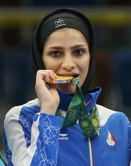 Karate at the 2017 Islamic Solidarity Games, women kumite −50 kg